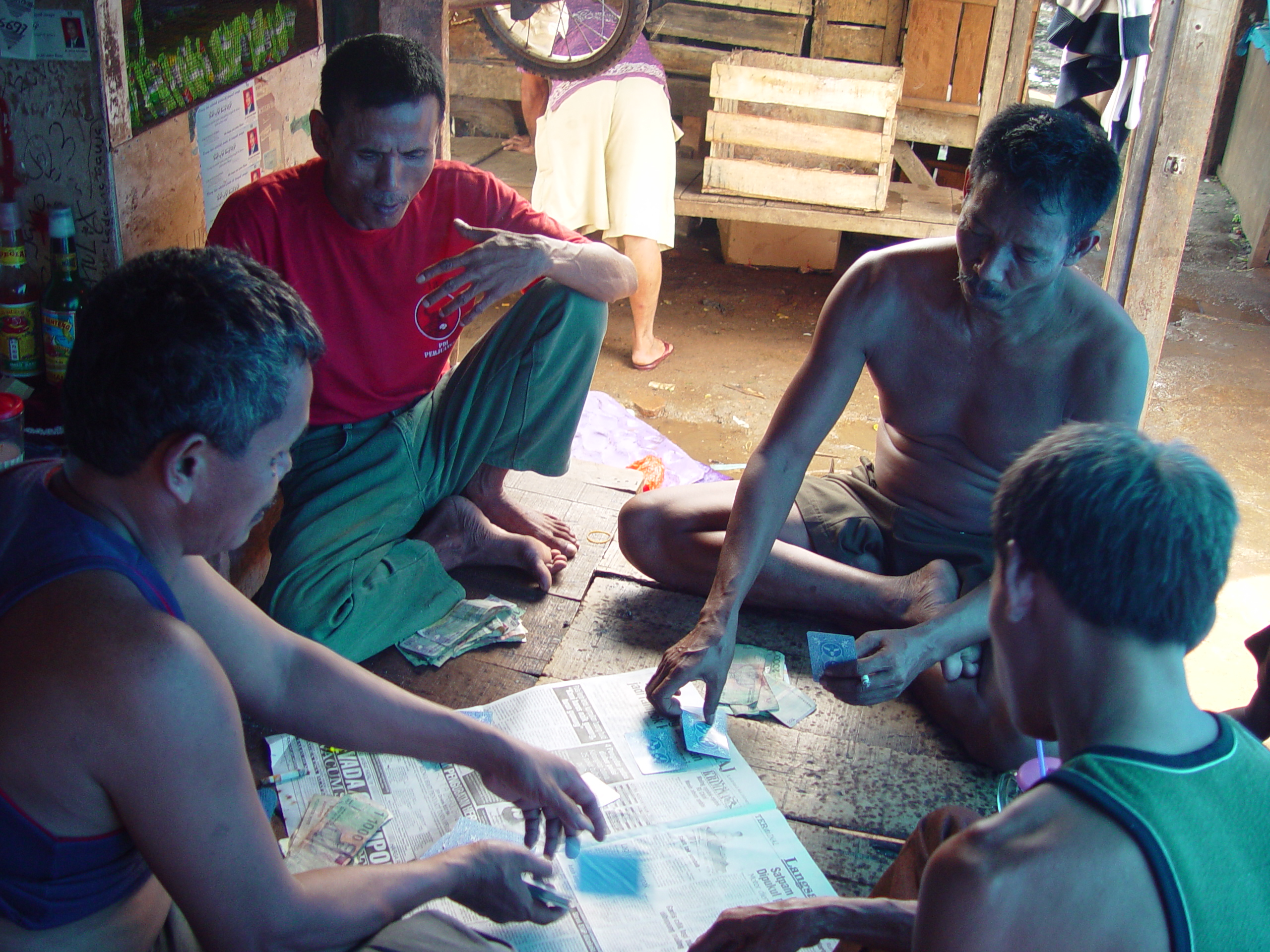 Slum life, Jakarta Indonesia.